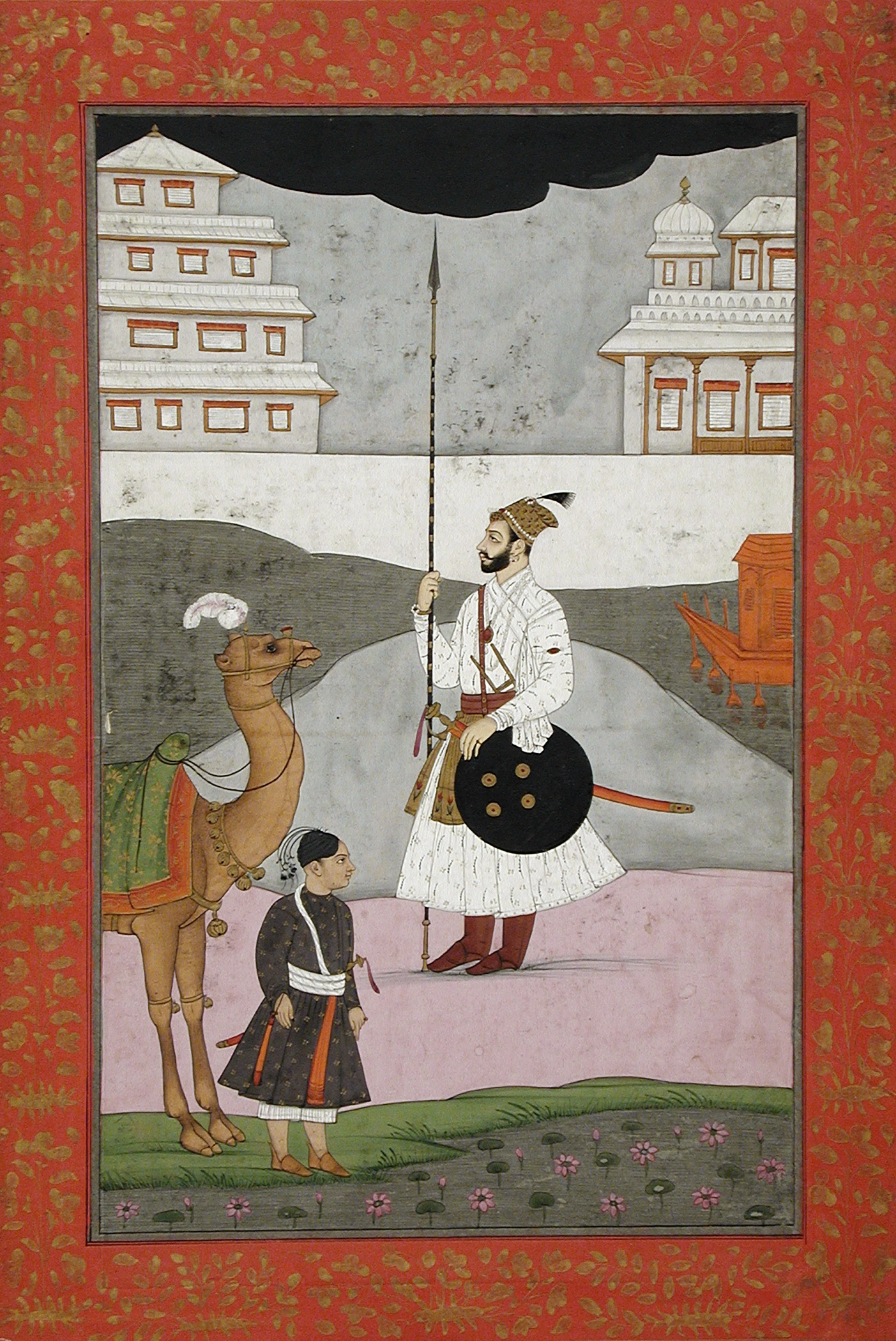 India, Deccan, 18th century Drawings; watercolors Opaque watercolor, gold, and silver on paper Sheet: 11 3/8 x 7 13/16 in. (28.89 x 19.844 cm); Image: 9 1/4 x 5 3/4 in. (23.5 x 14.61 cm) Gift of Jane Greenough Green in memory of Edward Pelton Green (AC1999.127.31) South and Southeast Asian Art